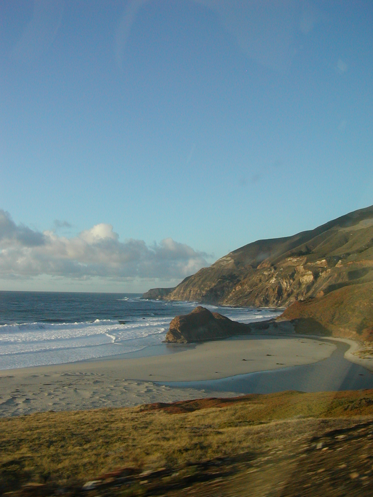 A picture I took of the outlet of the Little Sur River near Big Sur, California.